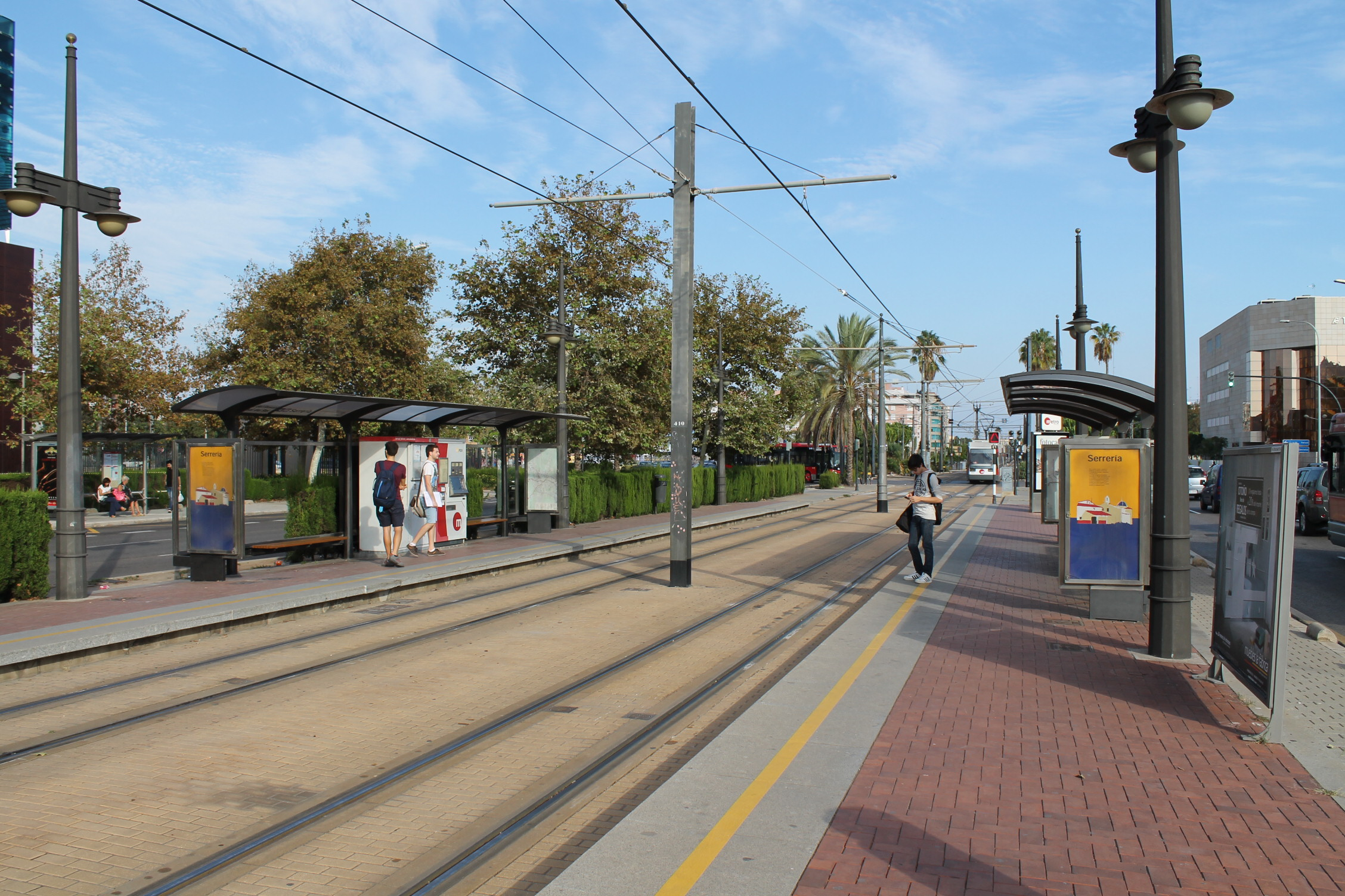 Platforms of the Serrería station of Metrovalencia.